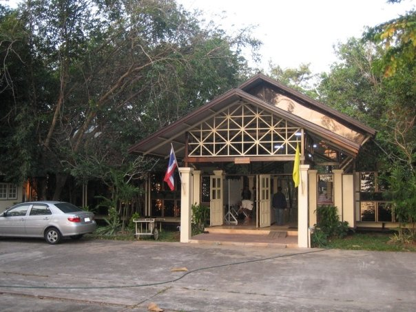 Entrance to the Prachenburi Vipassana Meditation Center in Thailand